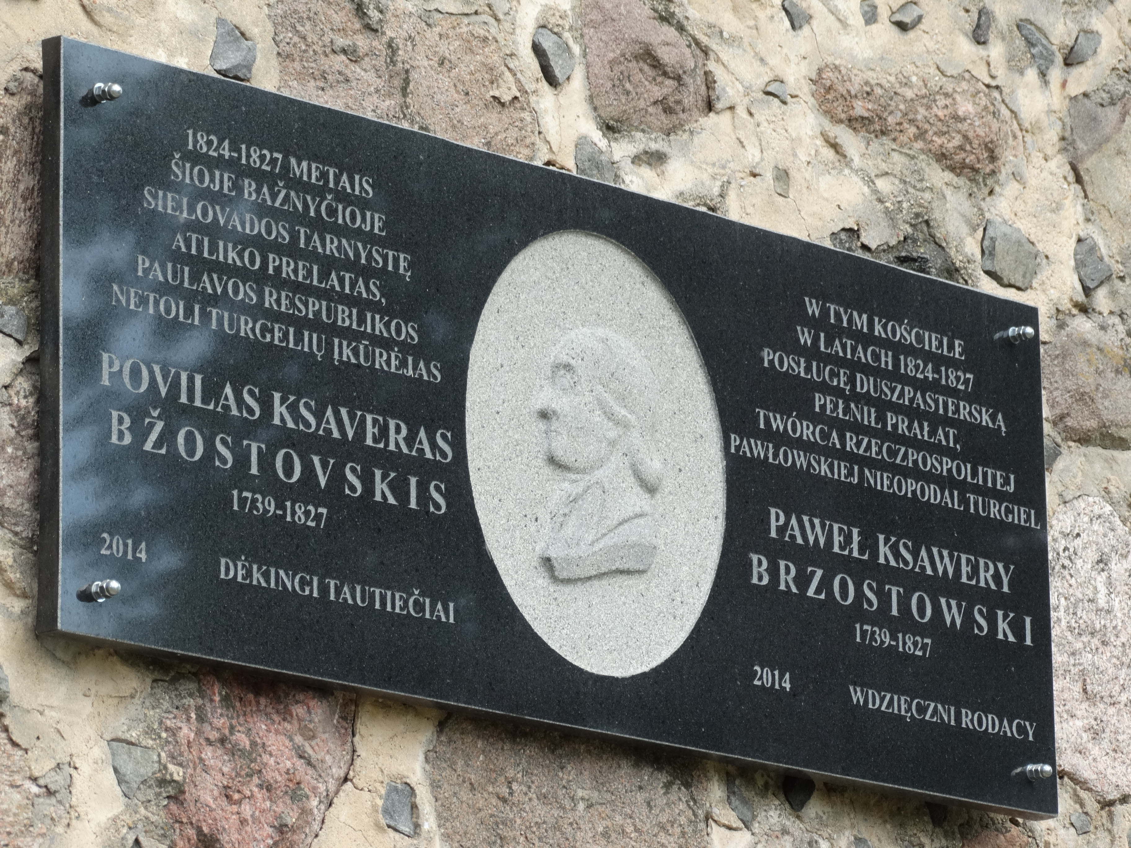 Memorial plaque, Rukainiai, Vilnius District, Lithuania